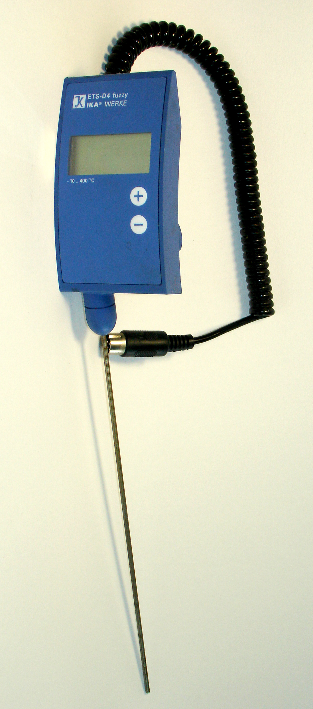 Laboratory electronic thermometer